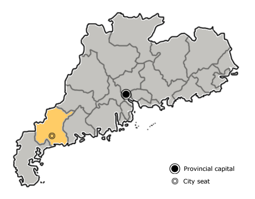 The prefecture-level city of Maoming is highlighted on this map of Guangdong province, People's Republic of China.